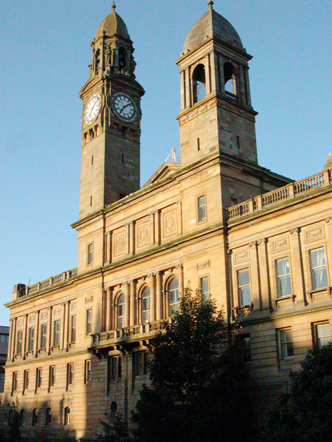 [1=Paisley Town Hall, Paisley, Renfrewshire, Scotland. View from St Mirren Street, across the White Cart Water.